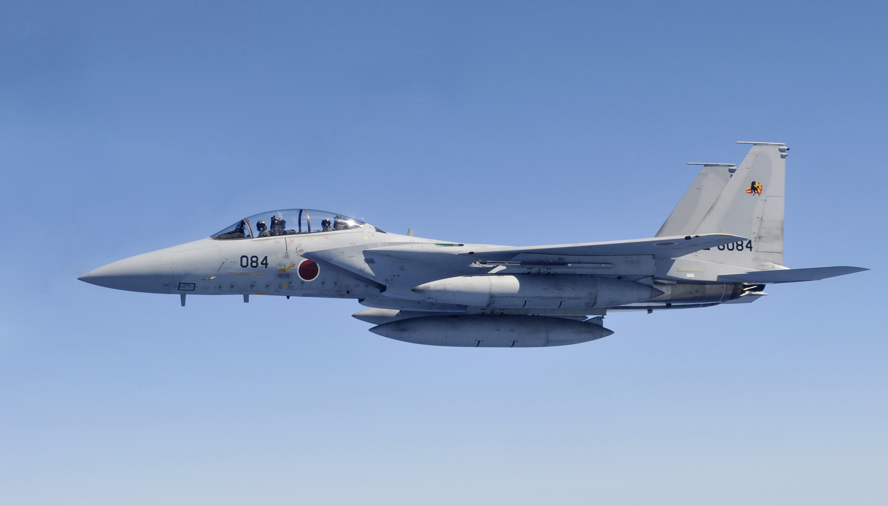 A Japan Air Self Defense Force F-15DJ (084) waits to refuel just beyond the wingtip of a 909th Refueling Squadron KC-135 during bilateral air refueling training May 17. Kadena Airmen have provided air refueling training to JASDF F-15 pilots since 2003. This month, the two nations are working together again to certify about 20 JASDF pilots as they prepare to participate in an upcoming Red Flag exercise in Alaska. (Air Force/Tech. Sgt. Chrissy Best) Nikon D300